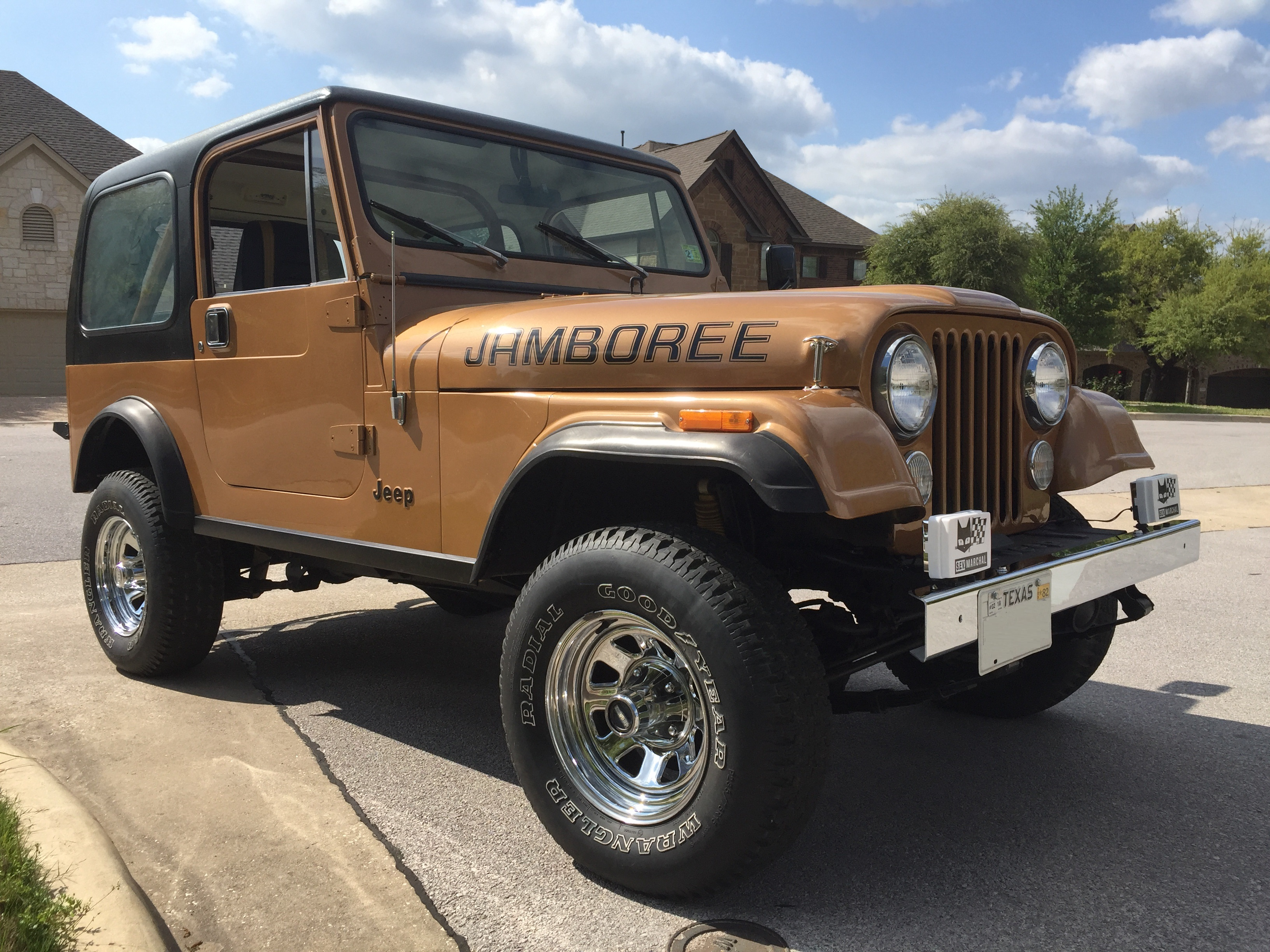 1982 Jeep CJ-7 Jamboree Commemorative Edition